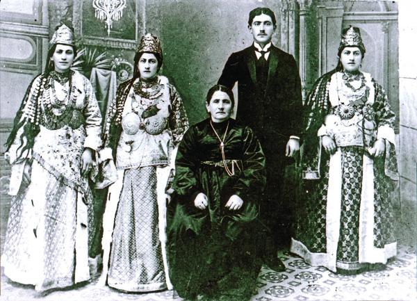 Anatolian Greeks from Silli wearing local traditional costumes. Silli had Greek residents and was located north of Konya (1906).